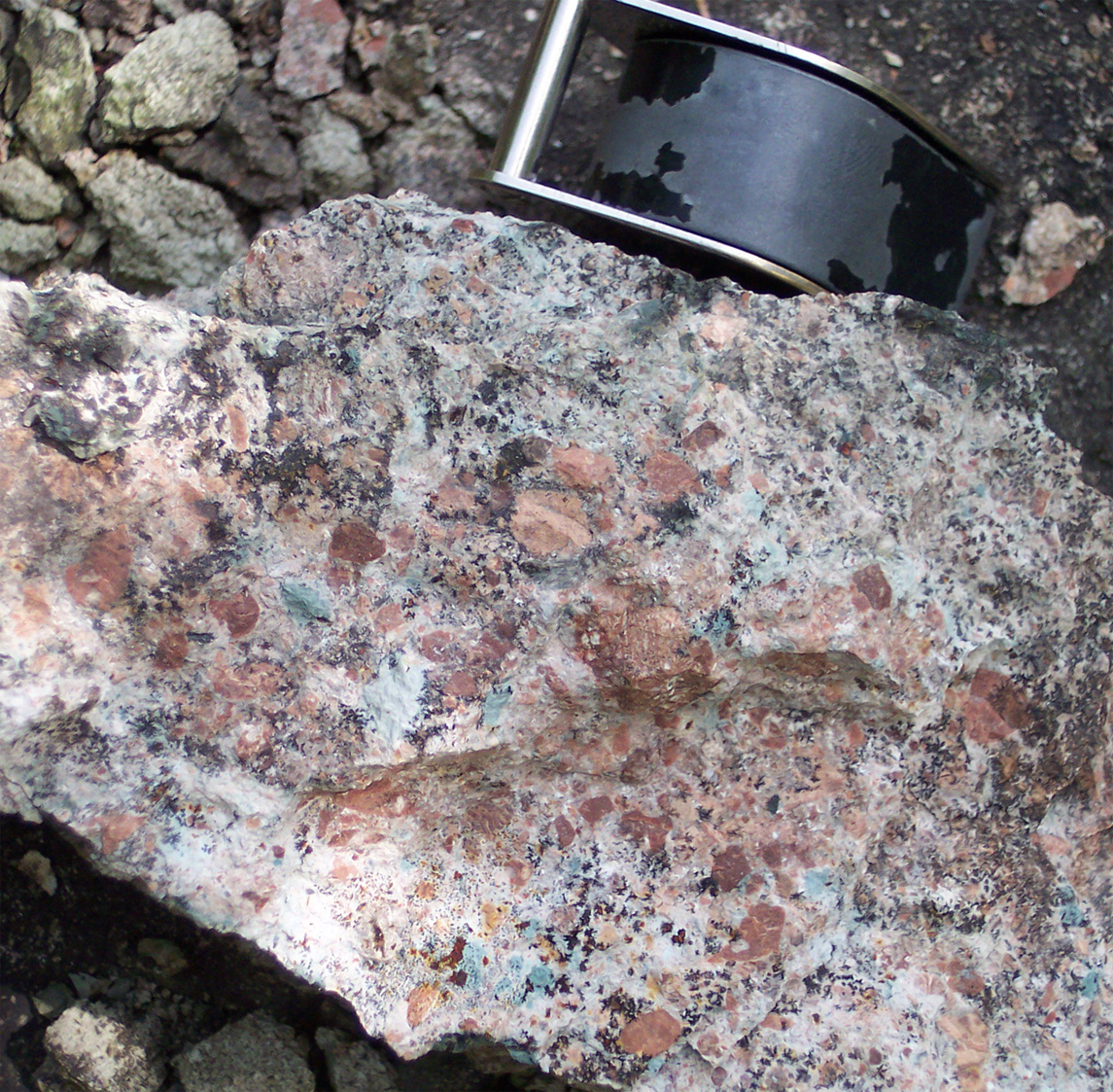 Specimen of latitic volcanic rock of the Möhrenbach Formation of the lowermost Rotliegend (Upper Pennsylvanian) of the Thuringian Forest. The specimen shows reddish brown phenocrysts of potassium feldspar within the whitish matrix of plagioclase. The greenish areas presumably consist of andesine. Near Möhrenbach, southeastern part of Thuringian Forest, central Germany.